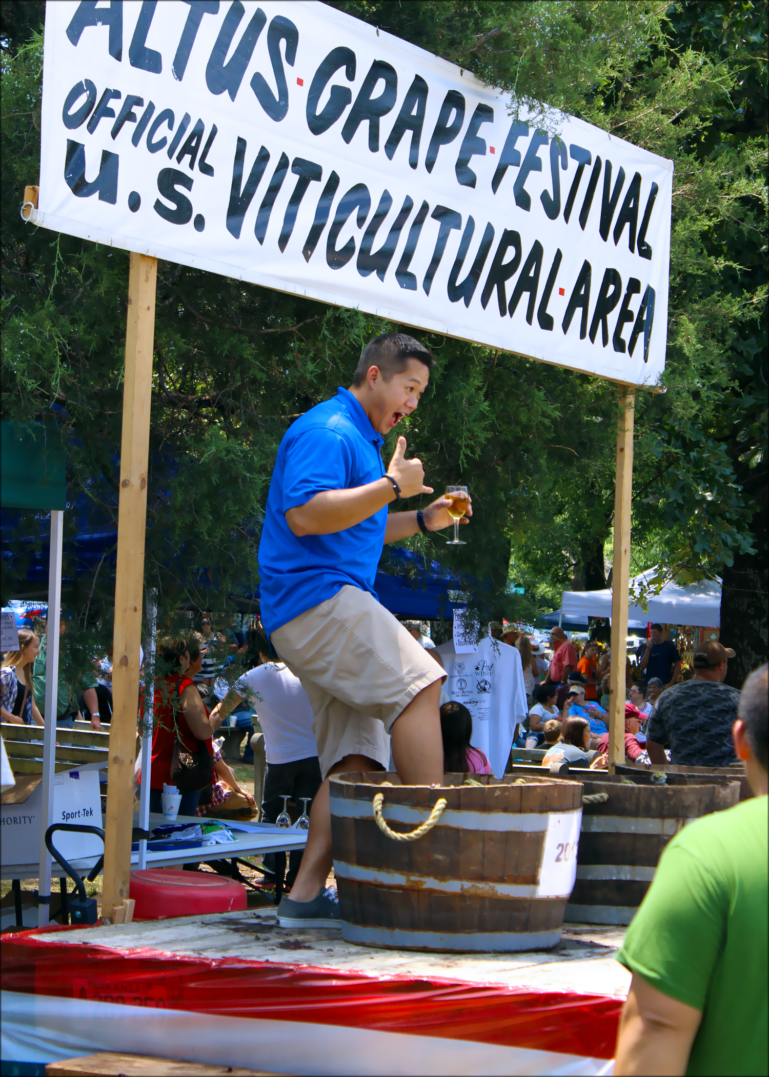 Attendees at the Altus Grape Festival get to try their hand at stomping grapes.